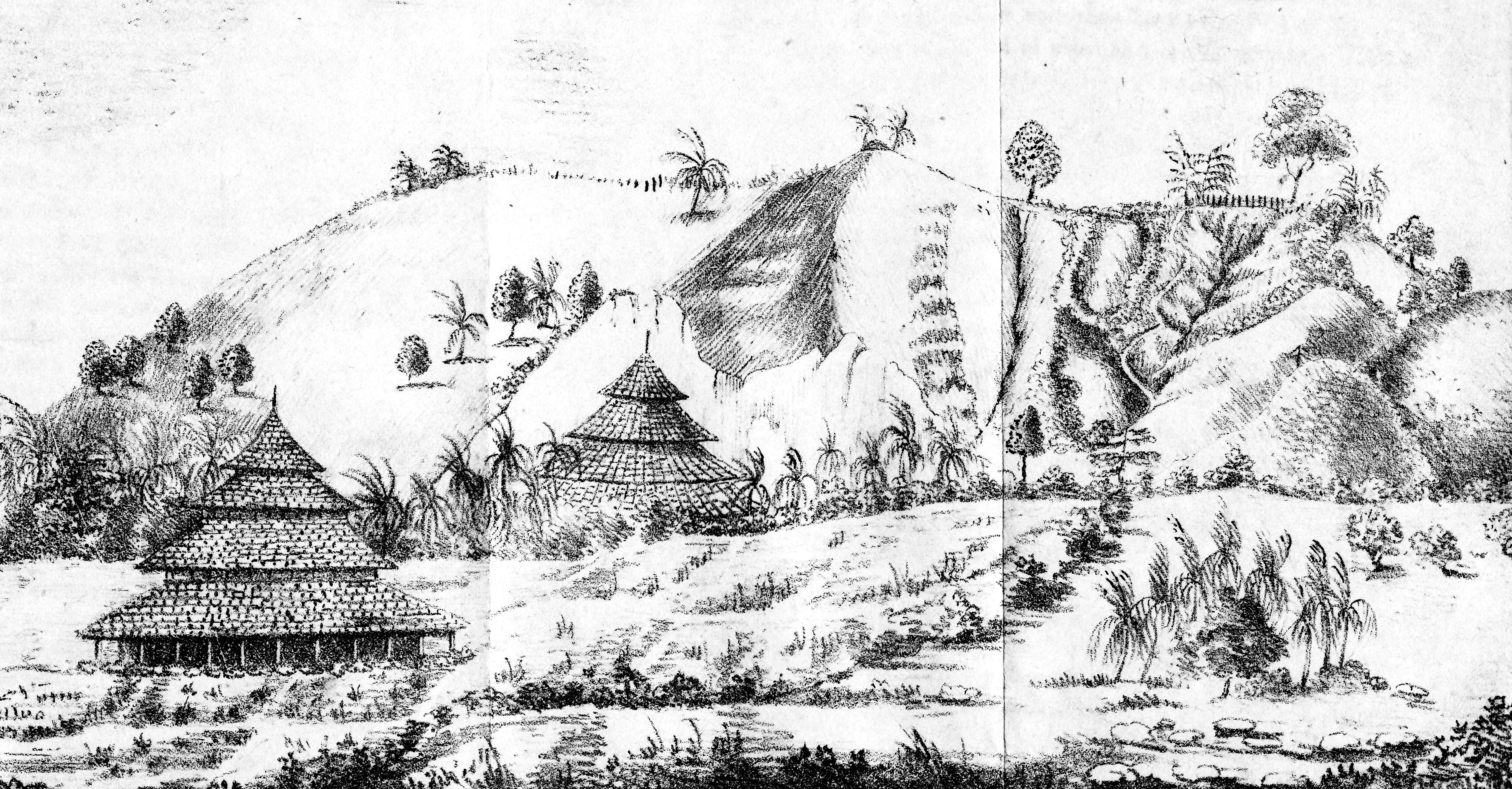 Bondjol